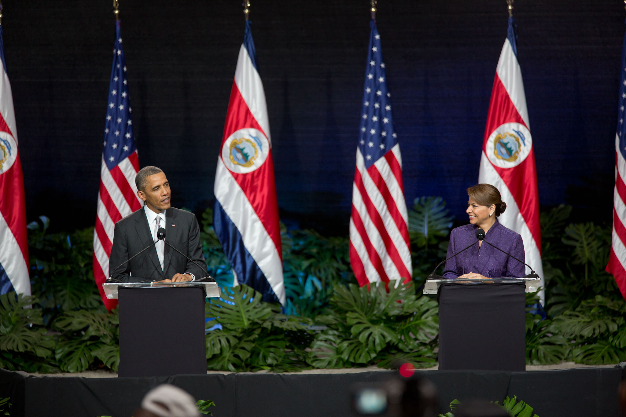 United States President Barack Obama participates in a press conference with President Laura Chinchilla of Costa Rica at Centro Nacional de la Cultura in San José, Costa Rica on 3 May 2013.